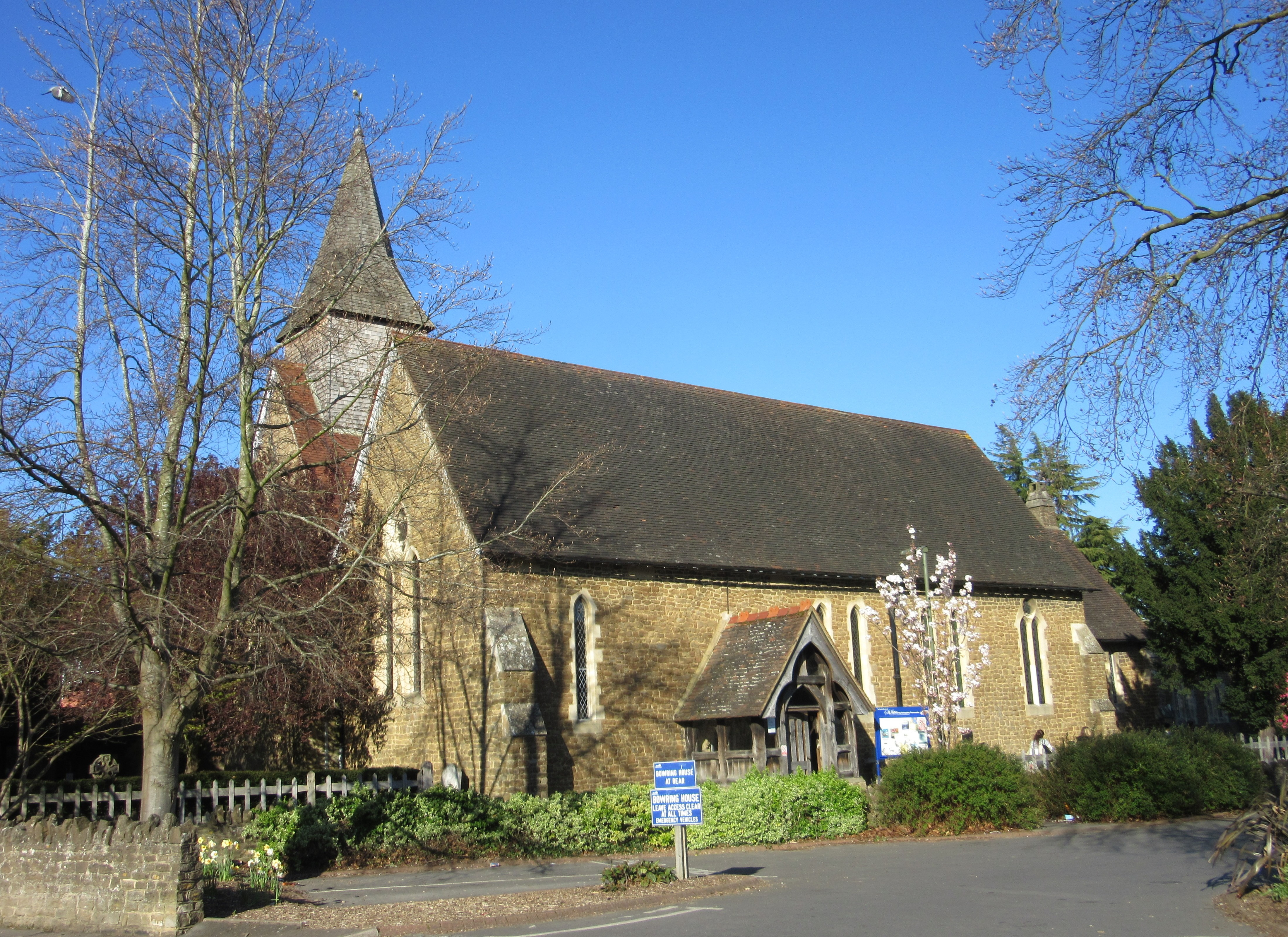 St John the Evangelist's Church, St John's Street, Farncombe, Borough of Waverley, Surrey, England.